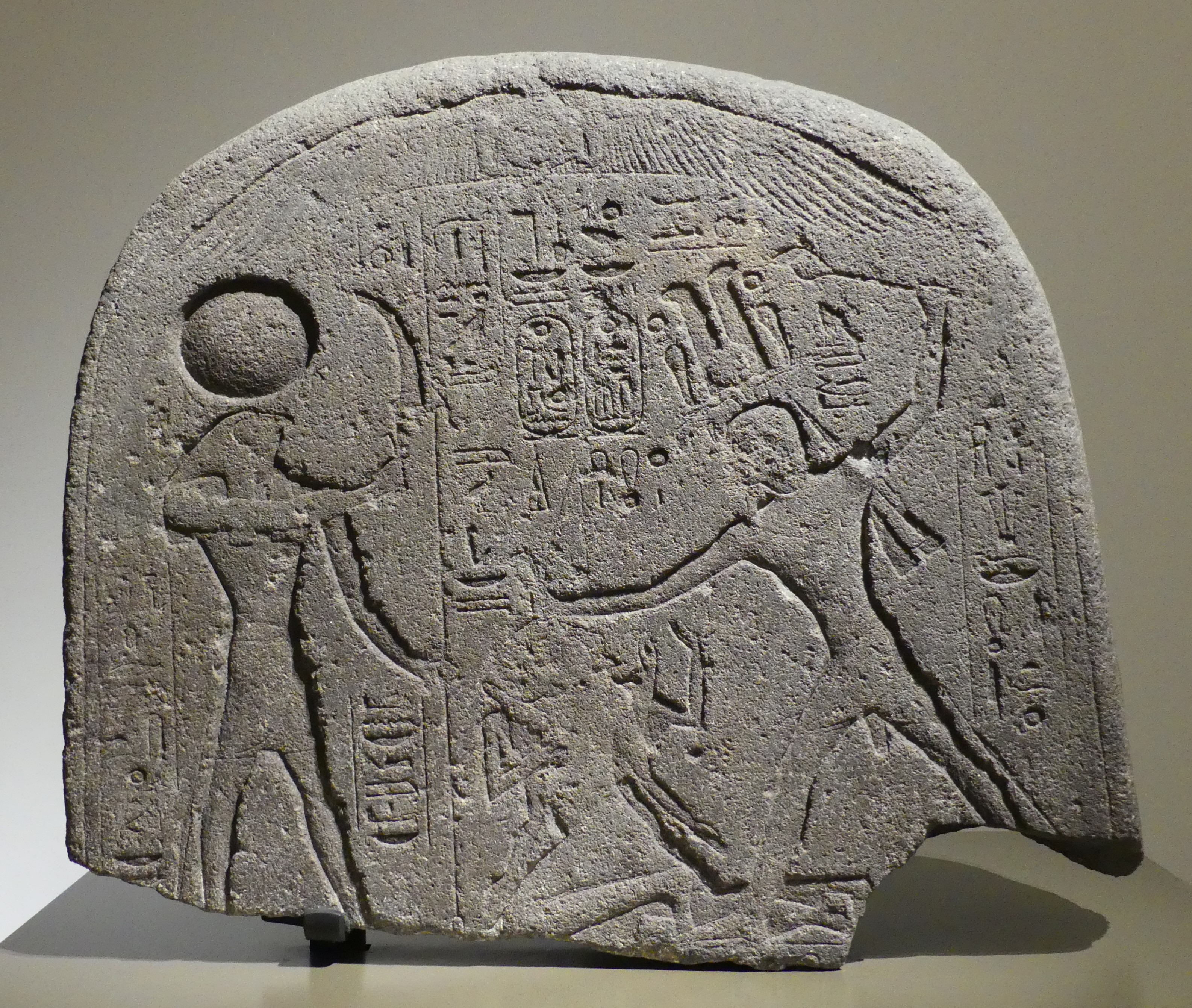 Basalt stele of Paraoh Ramesses II with a hieroglyphic inscription found in Tyre, 13th c. B.C., on display at the National Museum of Beirut, Lebanon. "Ramesses II slaughters the enemies of Egypt before the god war Ré-Hor-akhty"